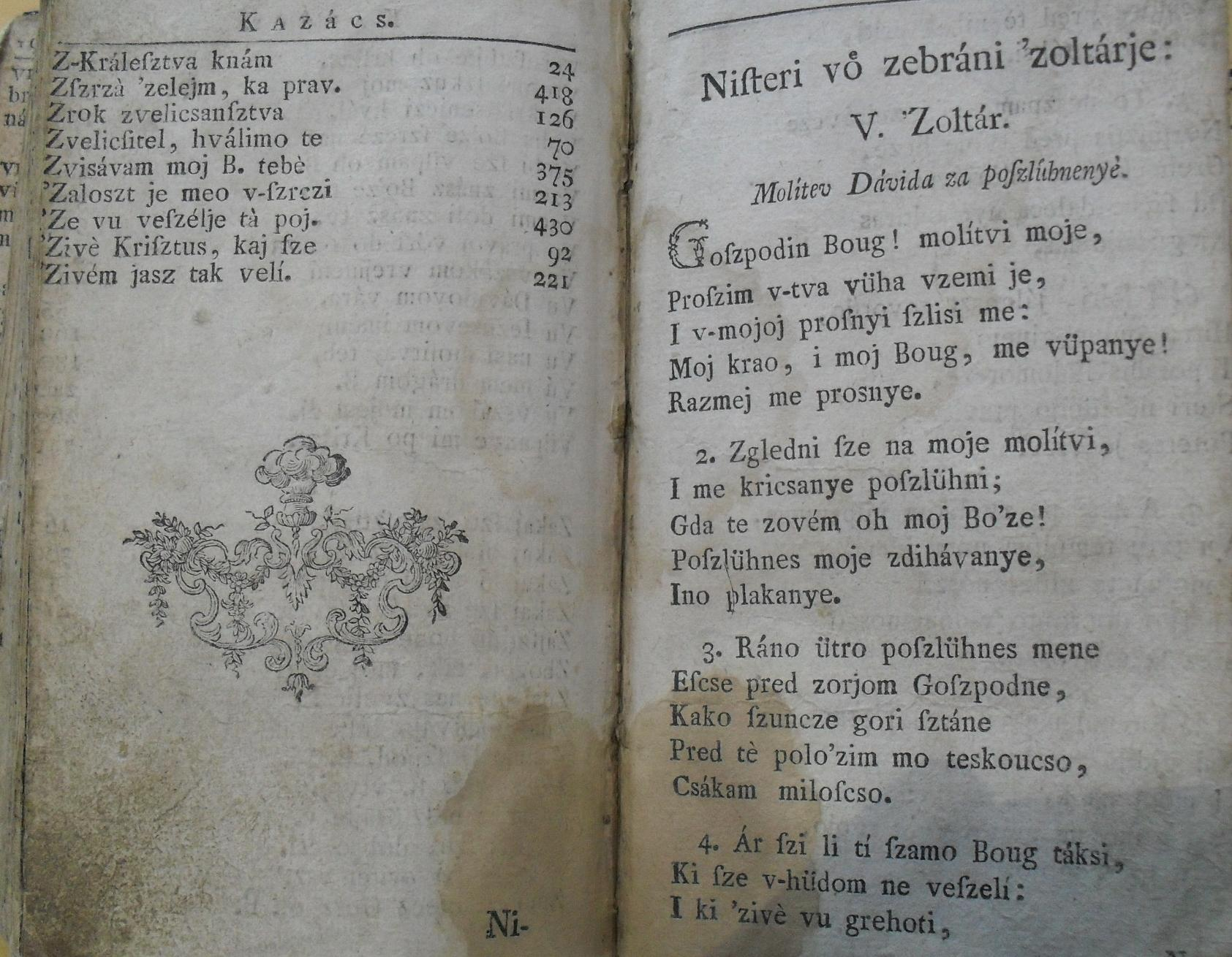 The 5. Psalm from the Nouvi Gráduvál of Mihály Bakos in Prekmurian language (prekmurščina)